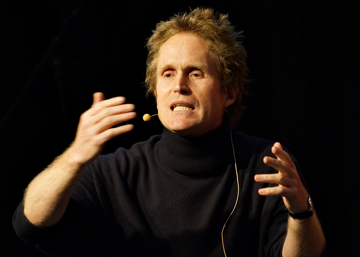 Peter Høeg - Danish writer at the Copenhagen Book Fair "BogForum 2012", Copenhagen, Denmark